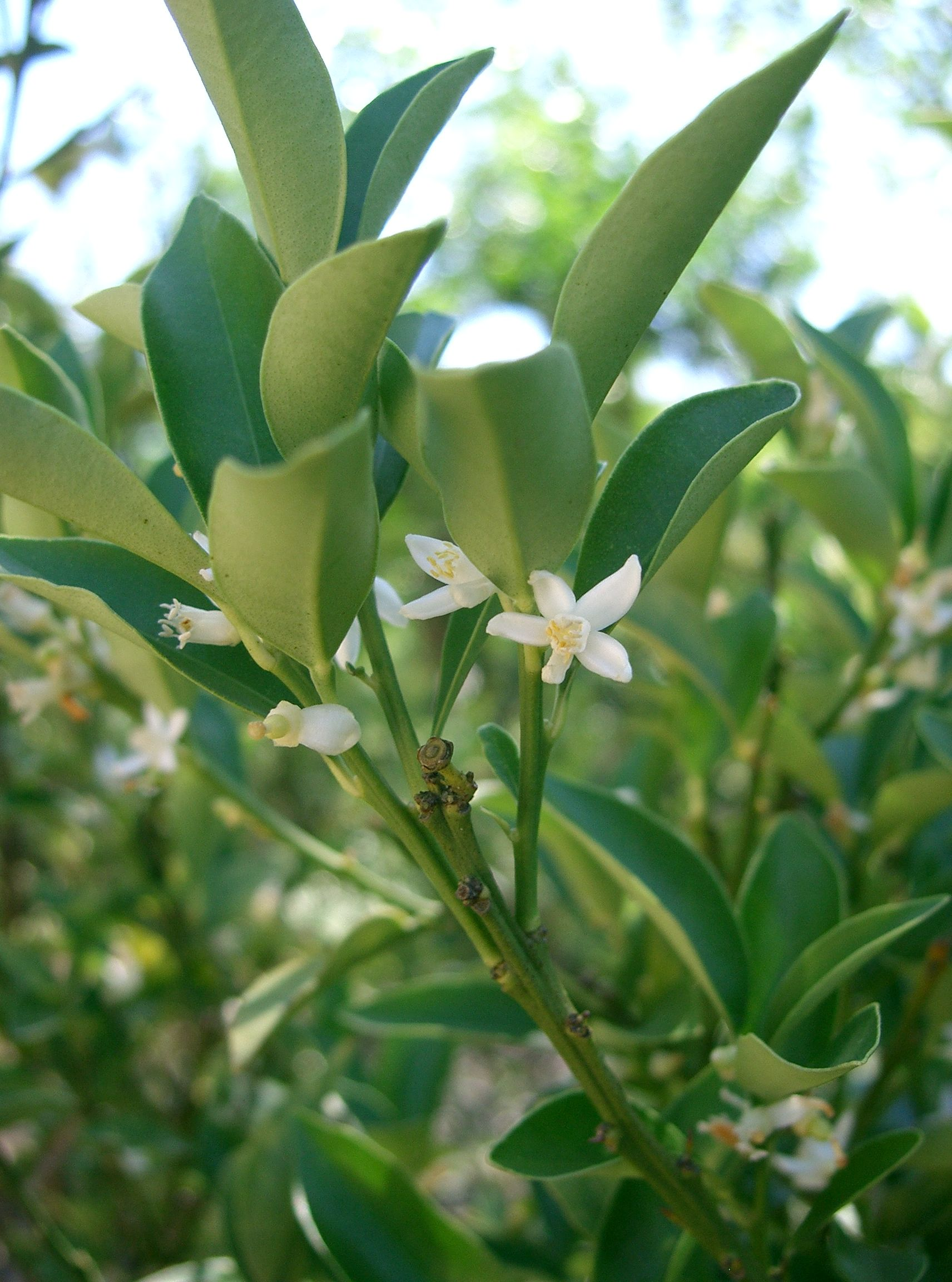 Foliage and flowers of Fortunella japonica, syn: Citrus japonica, the Kumquat. Growing in Osaka-fu, Japan.